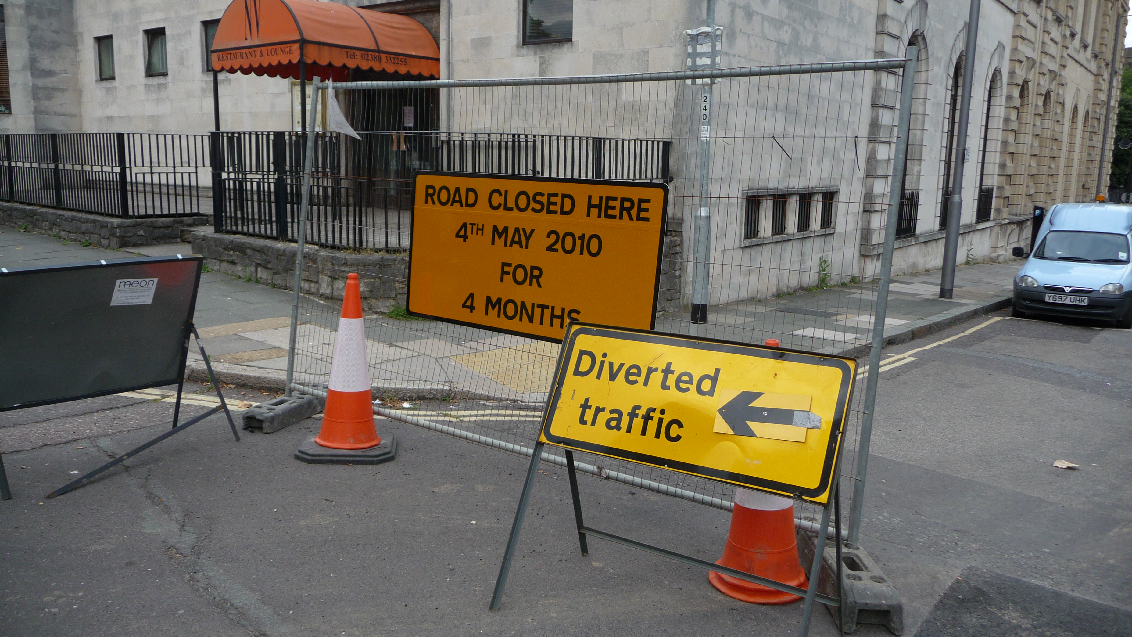 St Michael's Street, Southampton. The end had been closed off due to road works in the road outside, however no part of this short road itself was actually affected. The road is normally one-way down the hill, but this had been revoked during the closure, to enable cars to get back out.